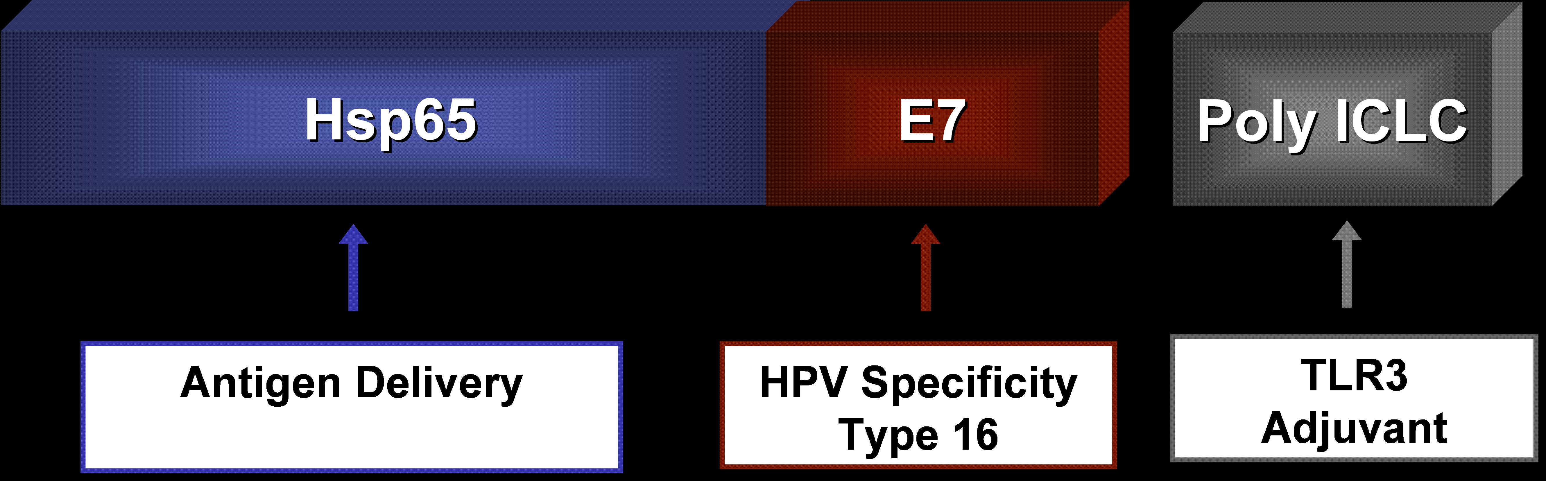 Visual of the HspE7 construct